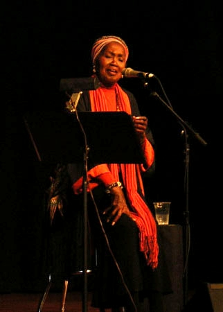 Picture of Odetta performing at the Kent State Folk Festival in Kent, Ohio, on November 18, 2006